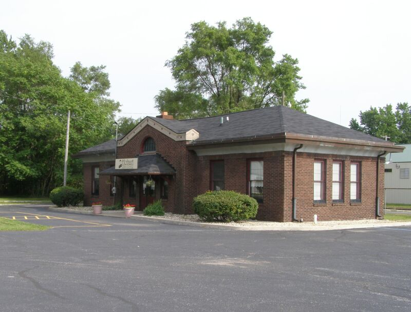 Old Pennsylvannia Railroad Station in Hobart, Indiana